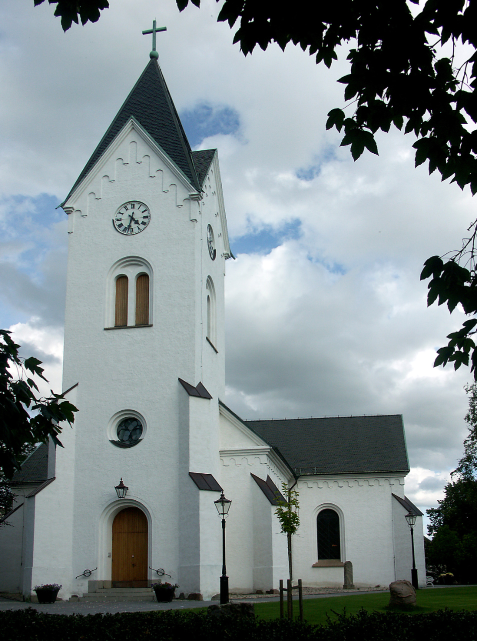 Ängelholms kyrka (Church of Ängelholm).